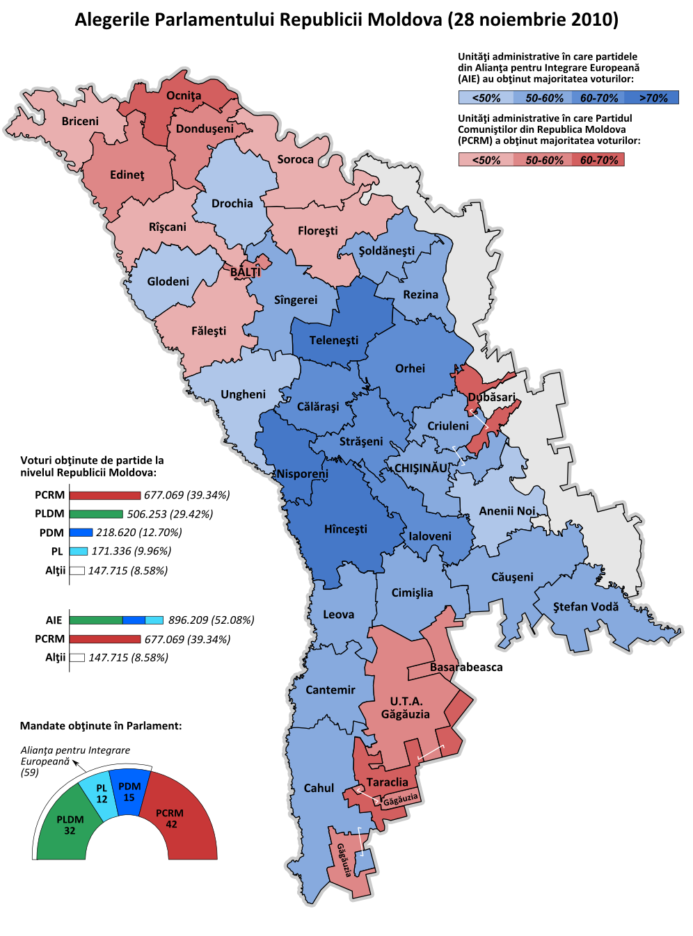 Map of the Moldovan parliamentary election of November 28, 2010.